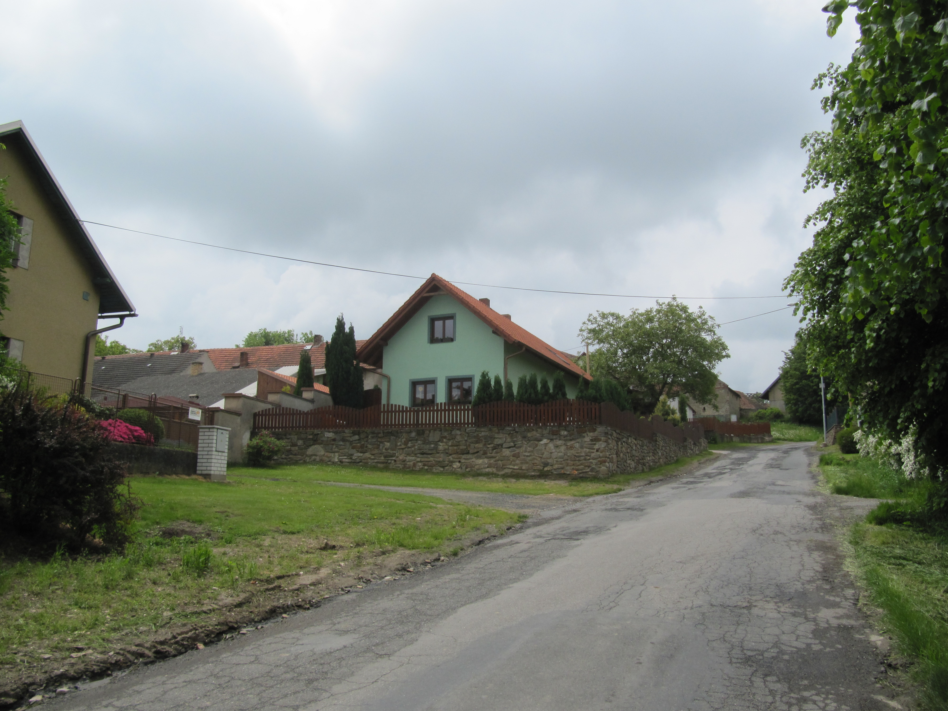 Zásmuky, Kolín District, Czech Republic, part Sobočice. Street towards Vavřinec.